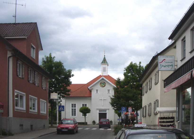 Wilhelmsdorf (Württemberg), Germany: View to the Saalplatz with Betsaal